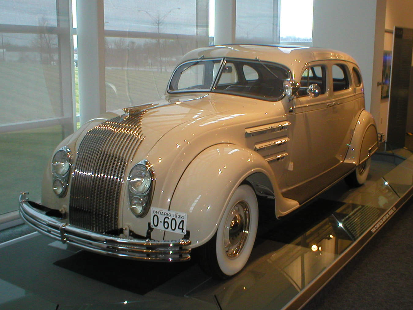 From the collection at the Walter P. Chrysler Museum in Auburn Hills, MI.1934 Chrysler Airflow